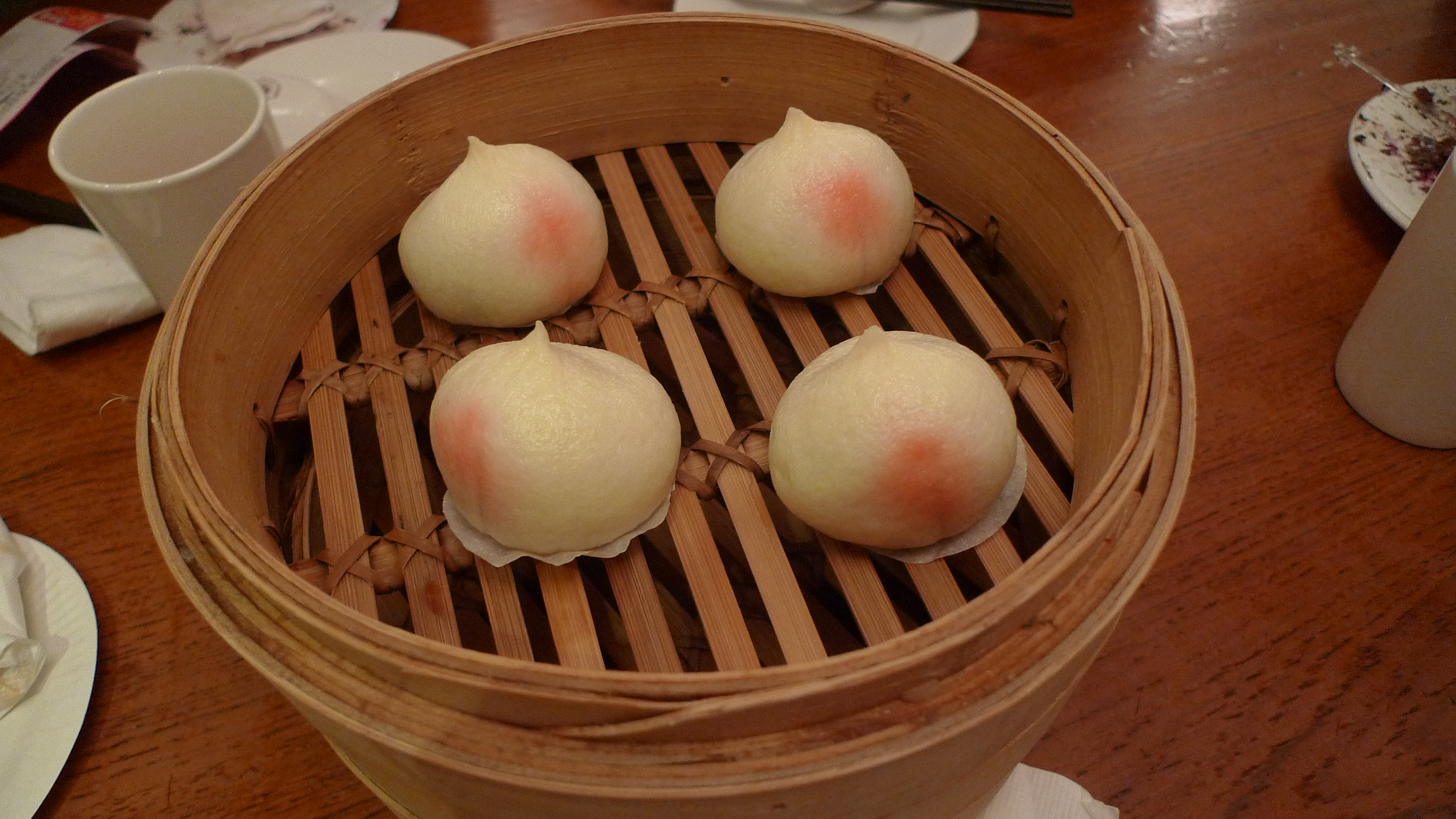 A shoutao in Chinese restaurant